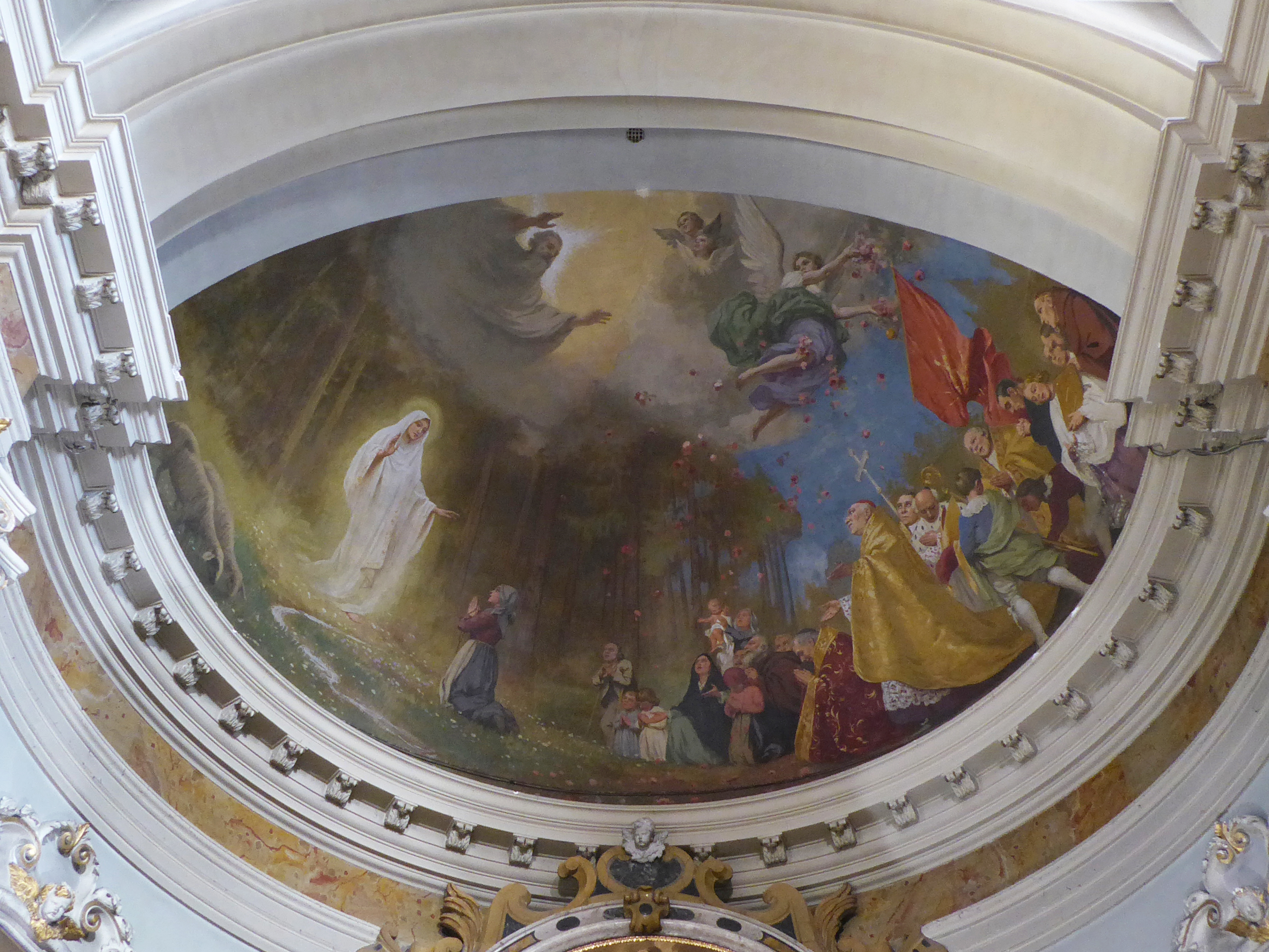 Santuario della Comparsa, Montagnaga (Baselga di Piné, Trentino, Italy), interior - Fresco of the Comparsa in the presbyterium, made by Duilio Corompai in 1929